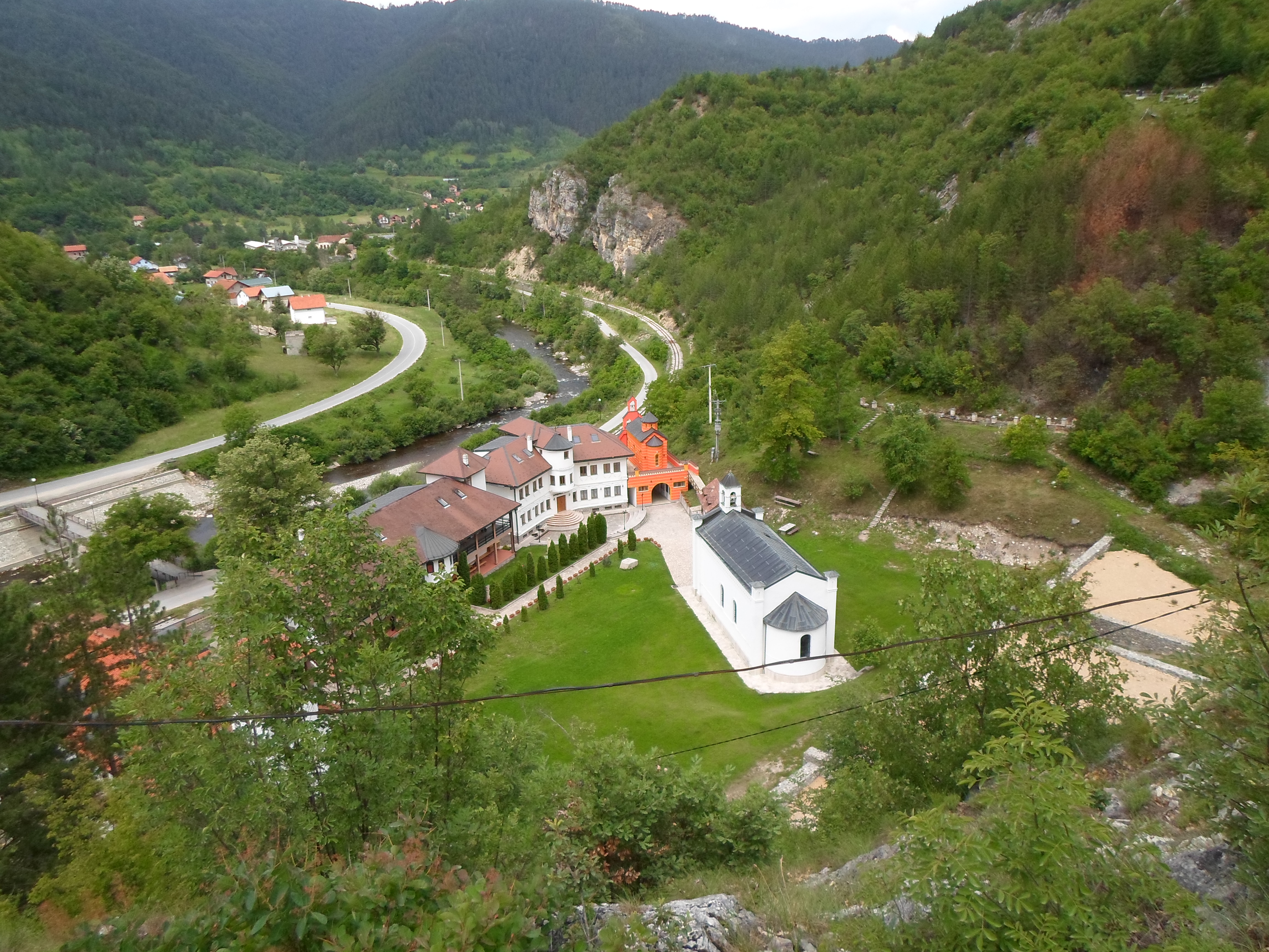 Monastery Dobrun